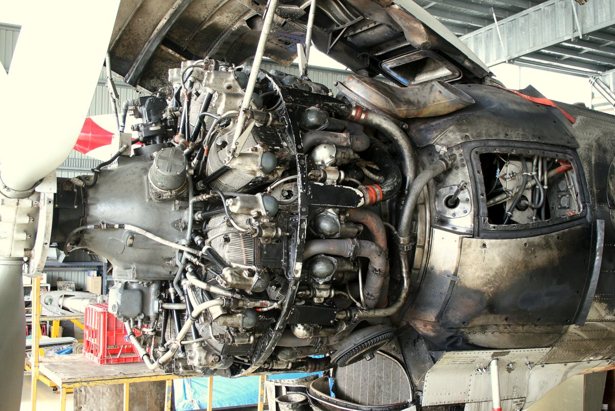 A Wright R-3350 Turbo-Compound radial engine, mounted on the wing of a Lockheed 1049 Super Constellation undergoing maintenance.